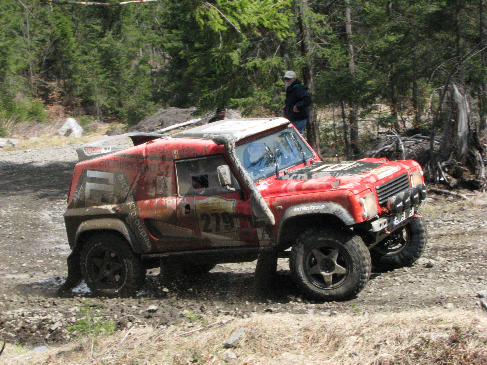 Victor Fulicea is a Romanian architech and amateur cross-country racing driver that entered a private Bowler in the 2008 Central Europe Rally (Romania & Hungary).